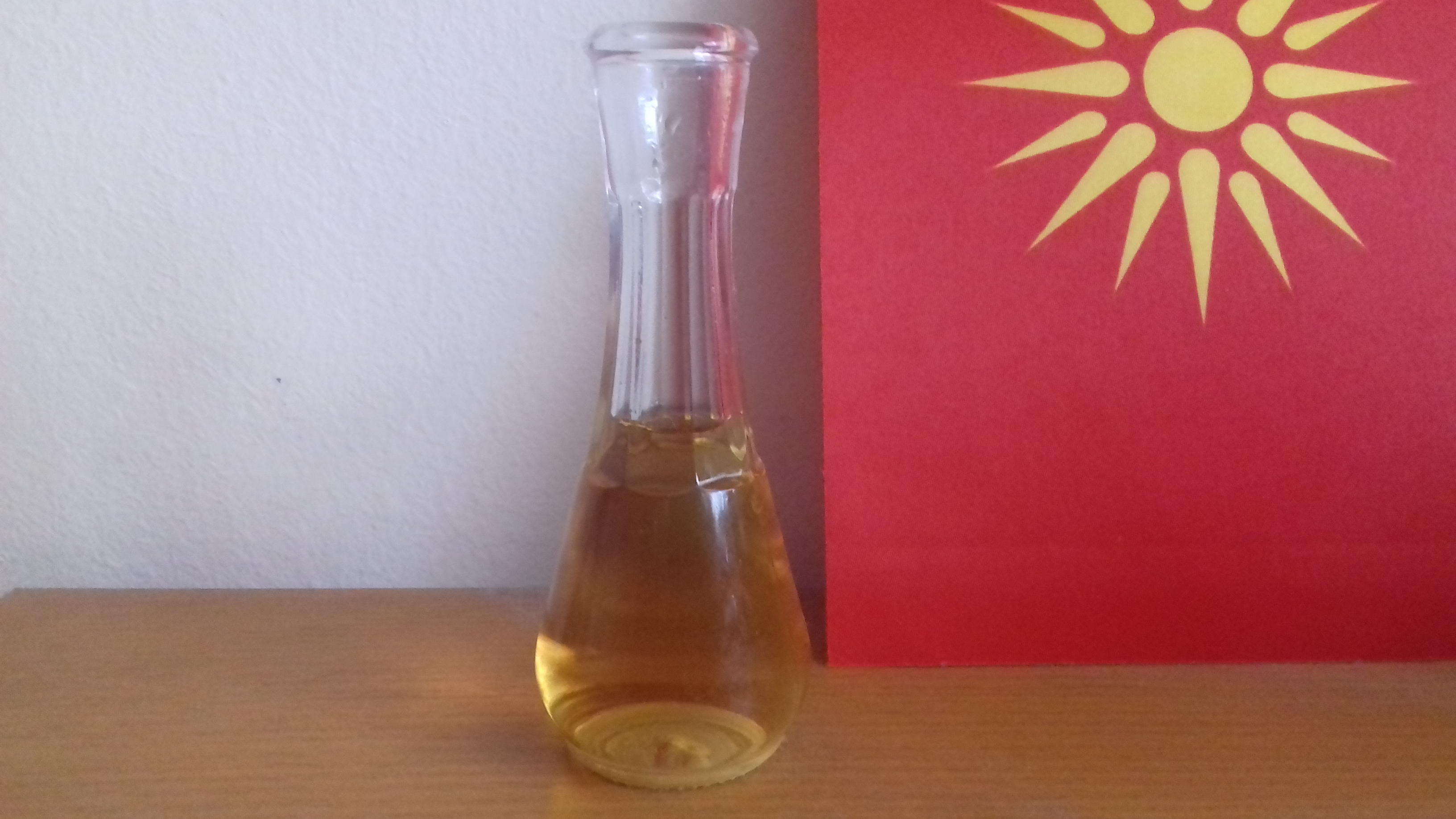 Čokanče (Chokanche) special special glass for drinking rakija